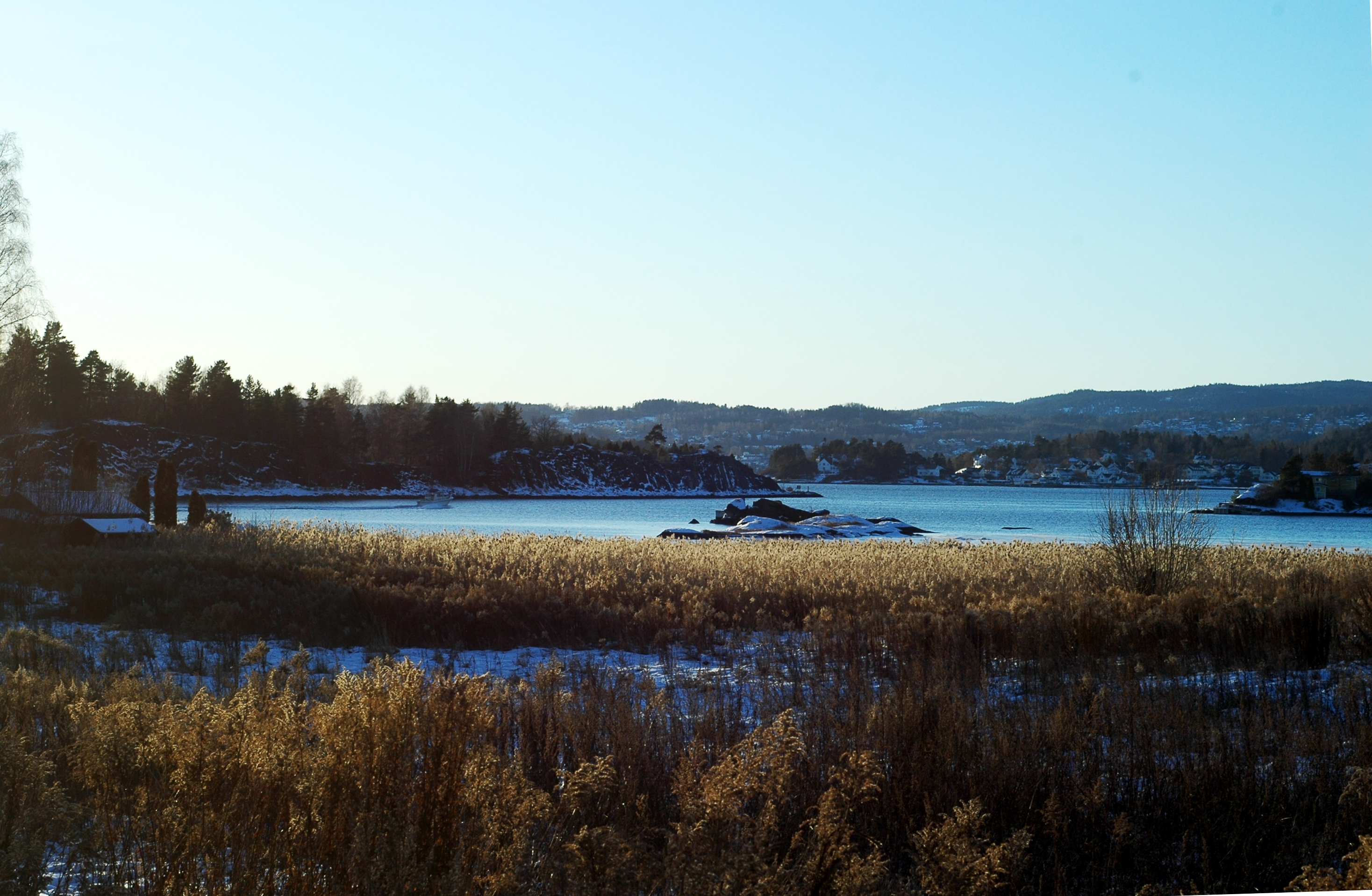 Landscape from Brønnøya in Asker, Norway